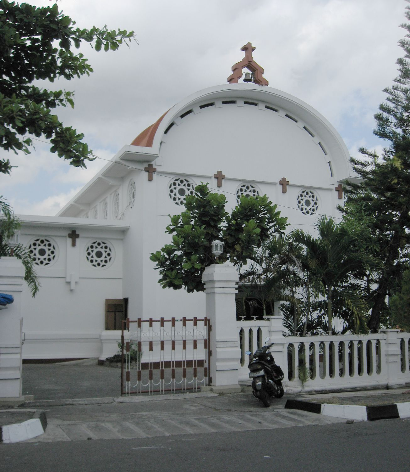 St Yoseph Church in Bintaran, Yogyakarta